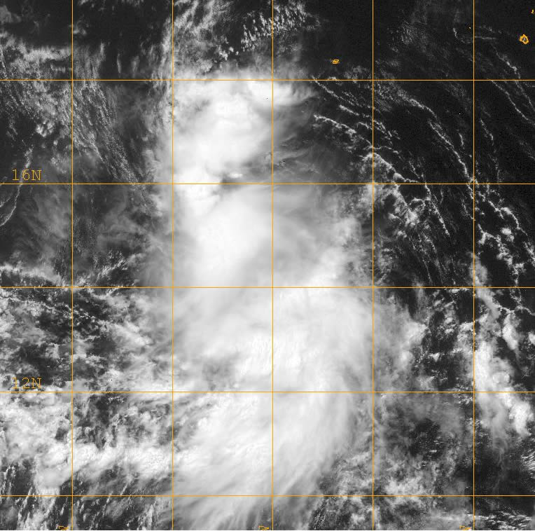 Tropical Depression Five-E of 2007, seen from GOES-11 satellite at 2100Z July 14.